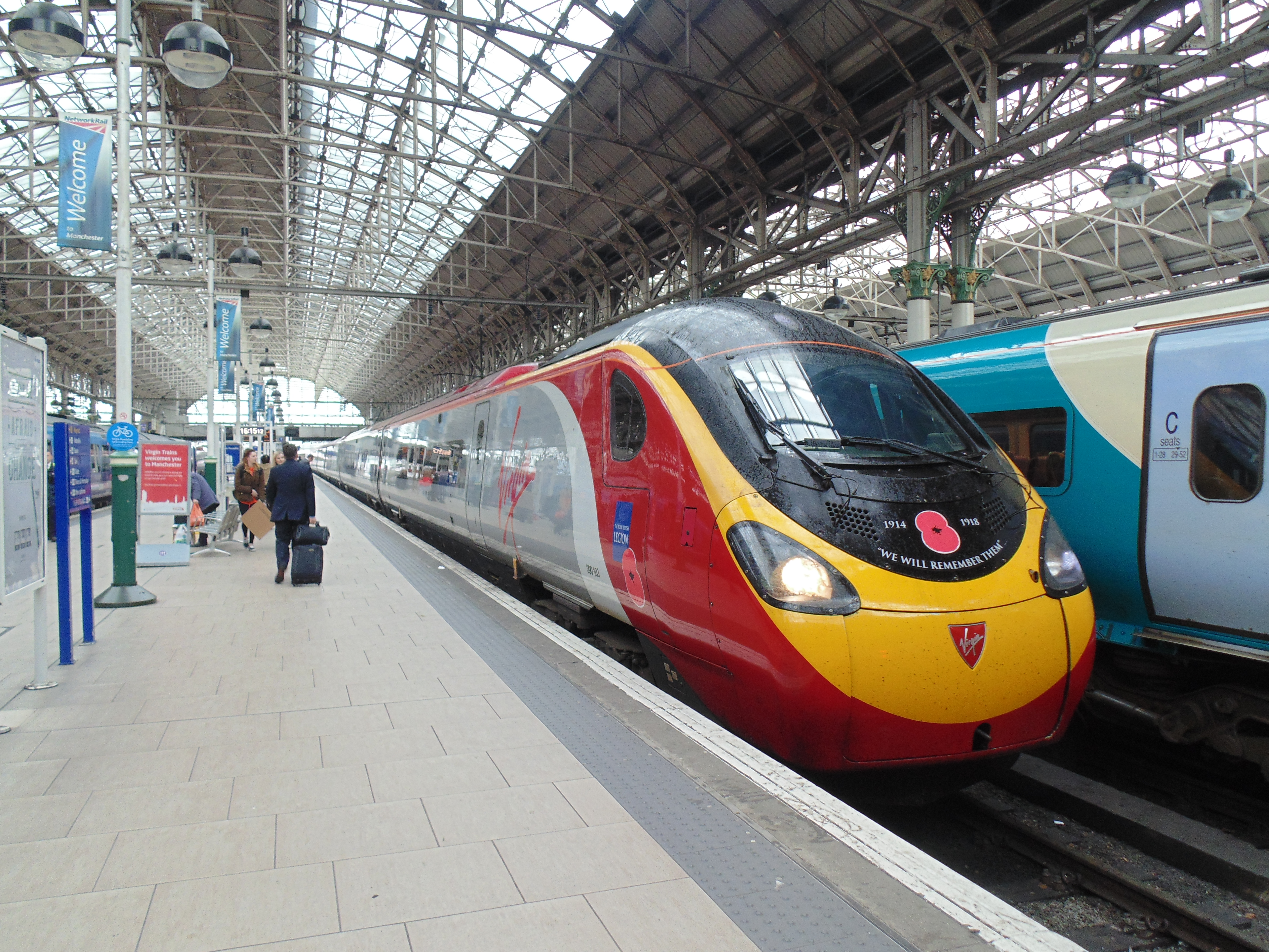 Virgin Trains 390103 at Platform 7 on Monday 31st March